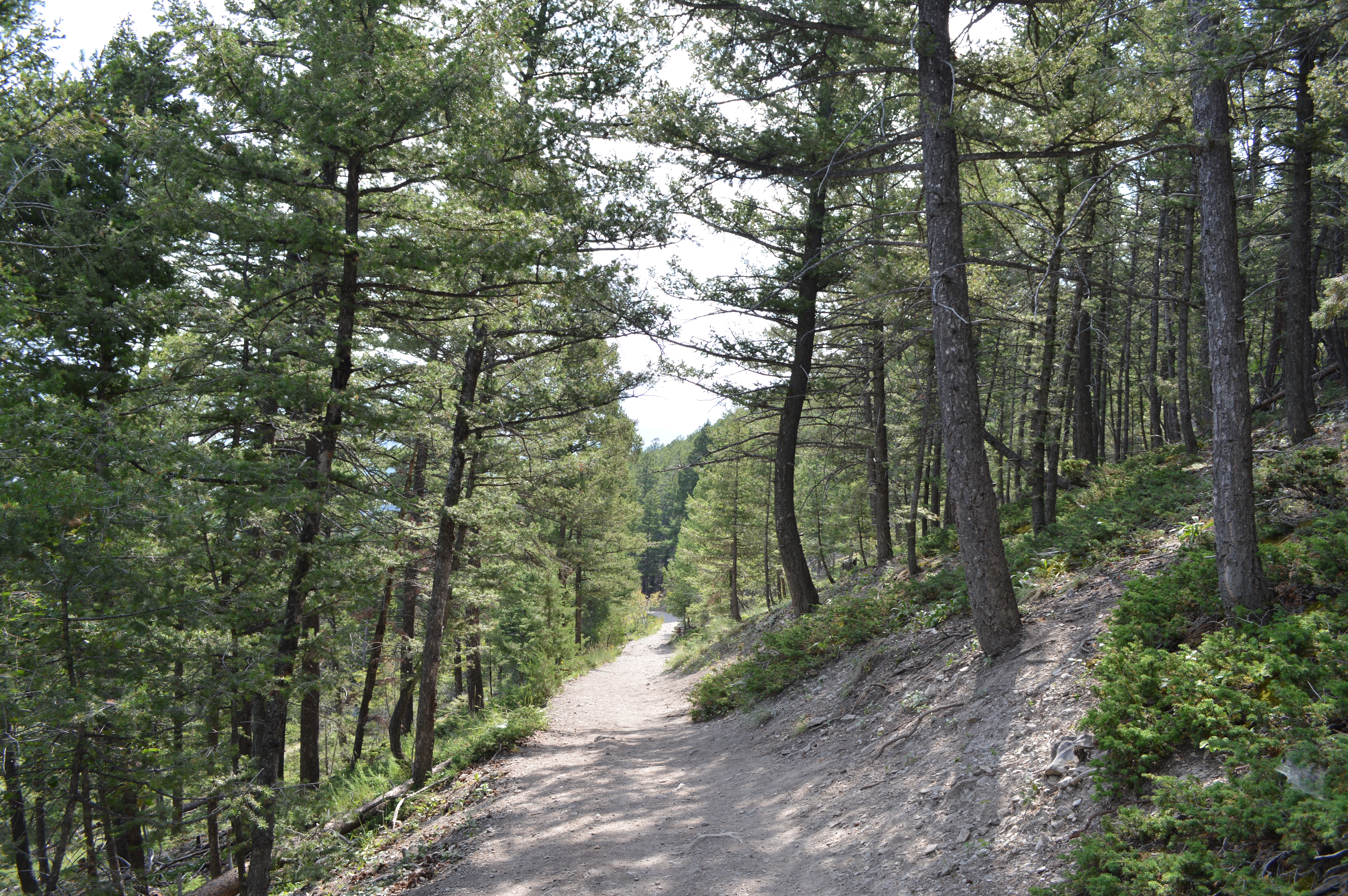 A view of the 1906 Trail at Mount Helena City Park, looking downward in July 2018.